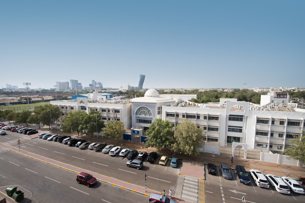 Aerial view of American International School in Abu Dhabi, AISA campus